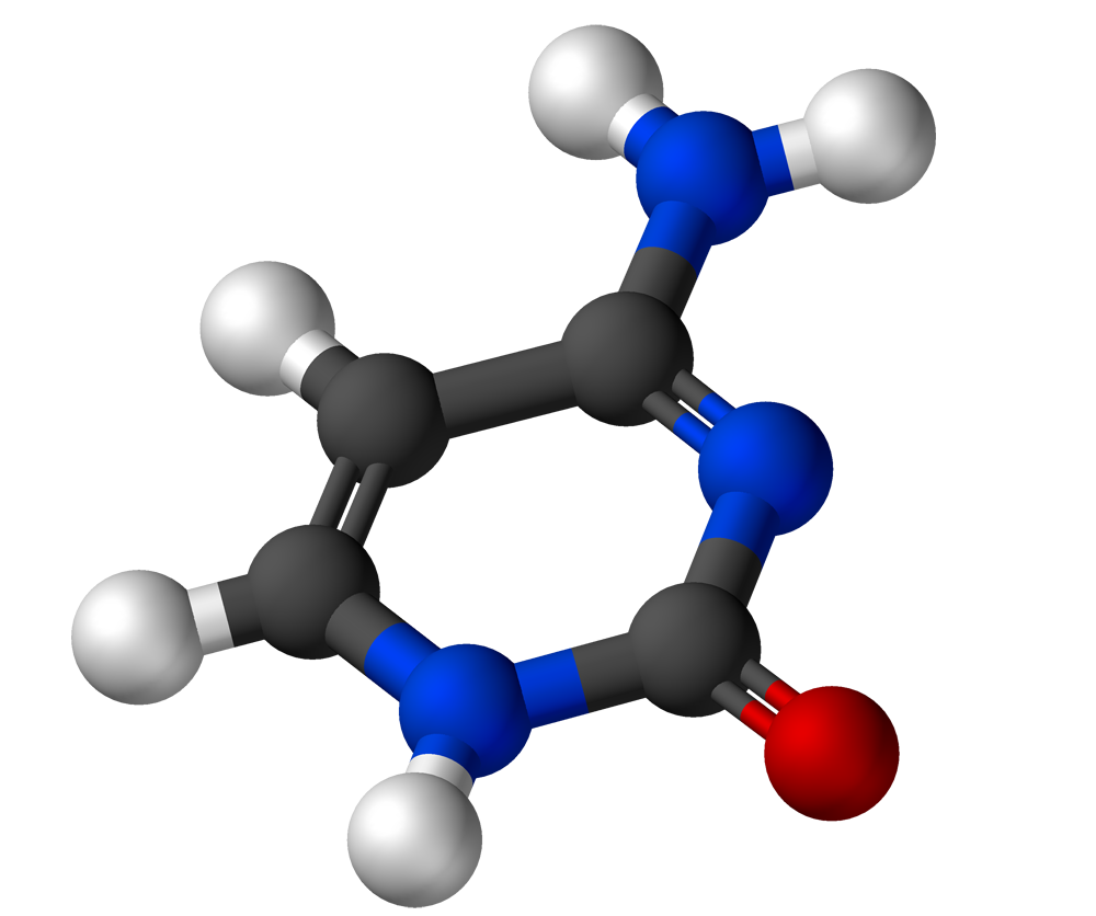 3D balls - Cytosine Color code: Carbon, C: black Hydrogen, H: white Oxygen, O: red Nitrogen, N: blue